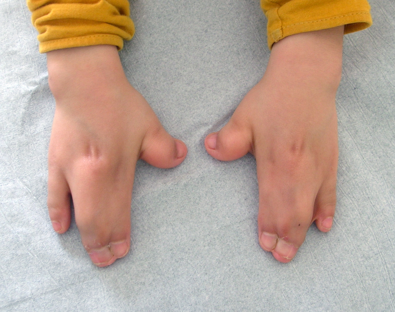 Hands of a child with Apert syndrome.